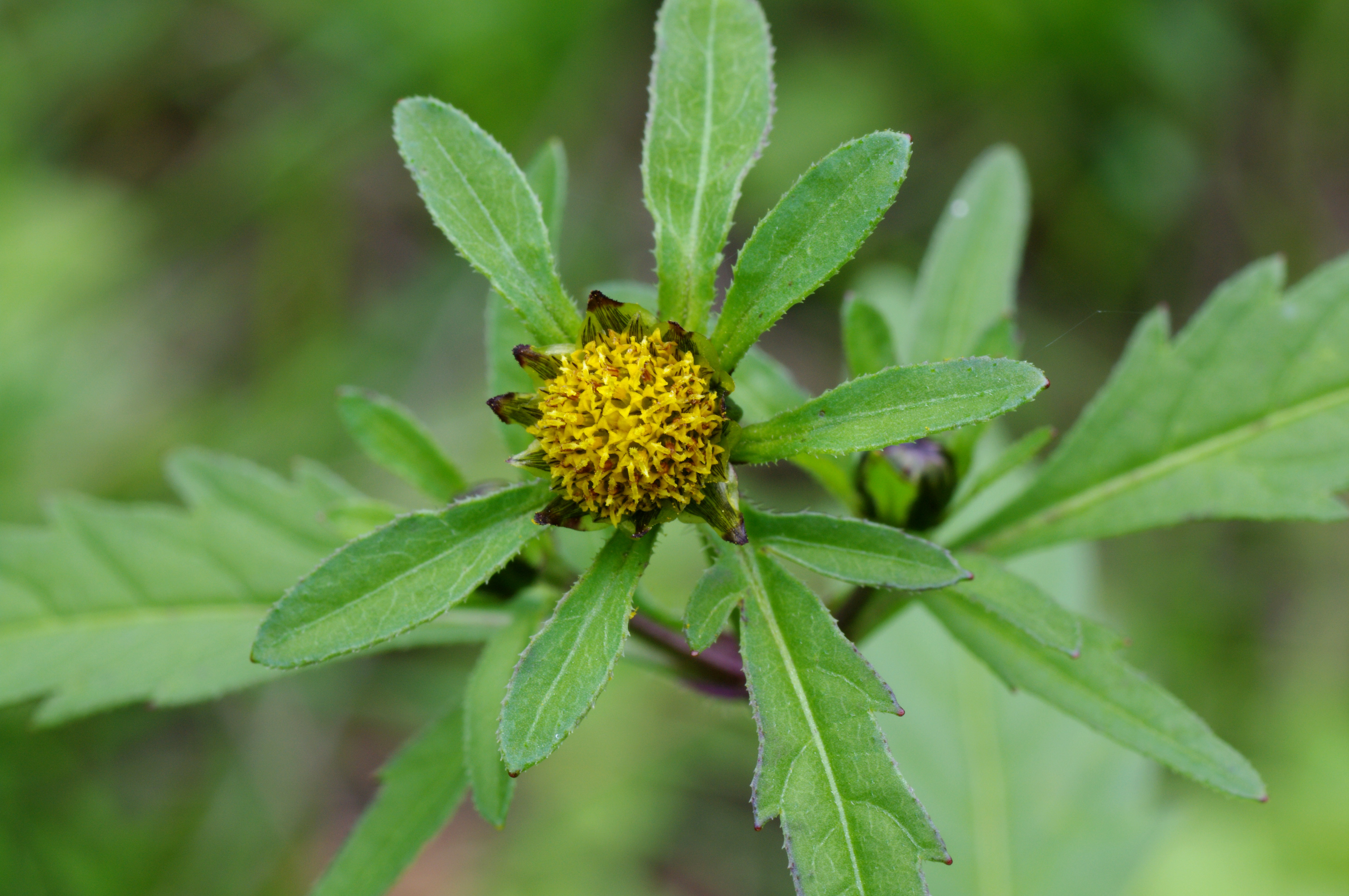 Close-up of an inflorescence of the Three-lobe Beggarticks, Bidens tripartita.